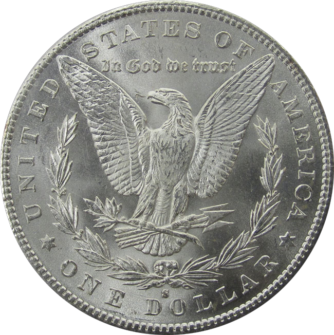 The reverse design of the Morgan dollar. This coin is graded MS63 by PCGS, one of the primary coin grading companies. This coin was minted in San Francisco, and bears the mint mark "S" below the eagle's tail feathers and above the letters "DO" of "DOLLAR".